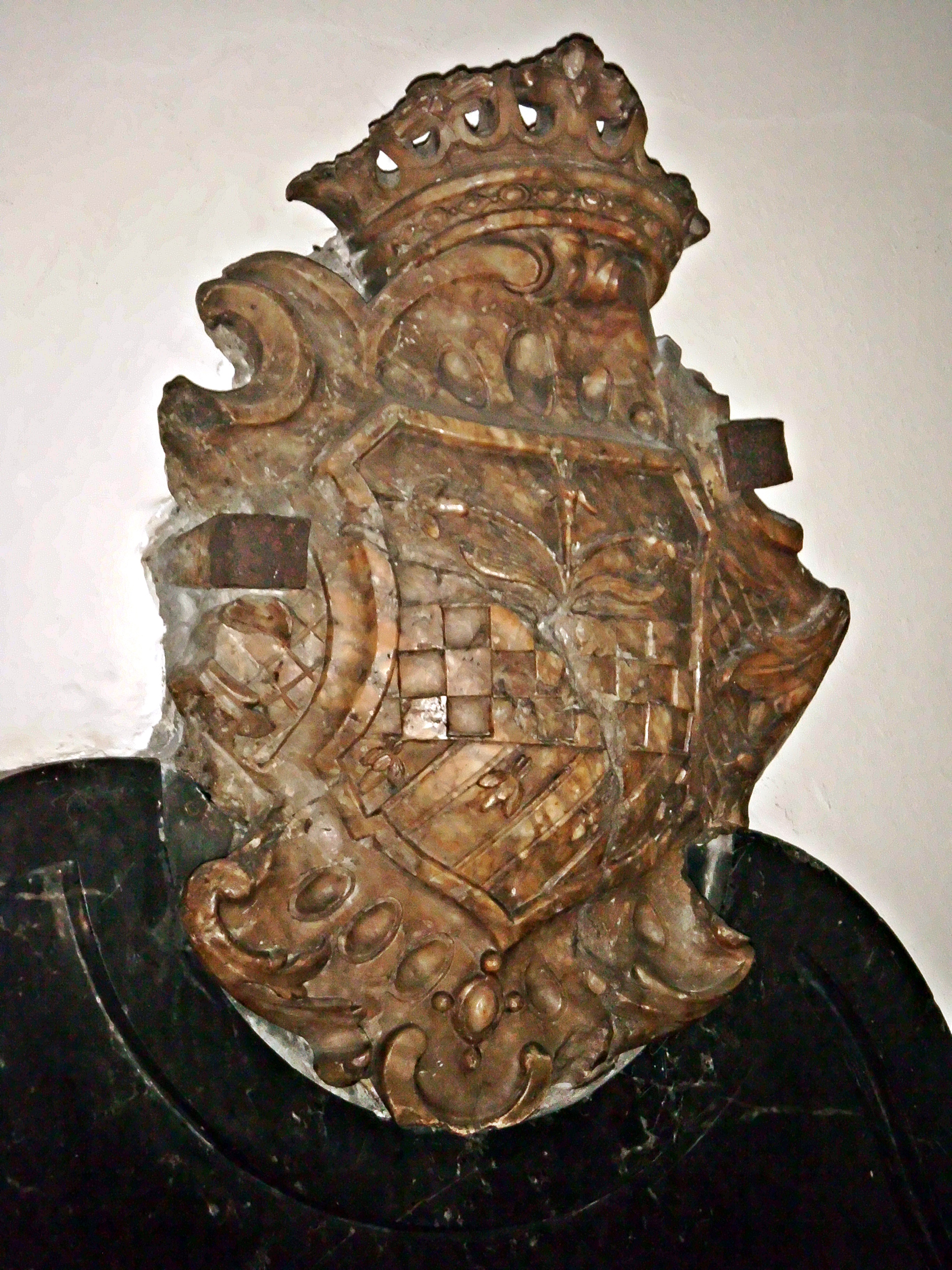 Epitaph Lubentius Huben (+1740), St. Sebastian, Mannheim, Wappen